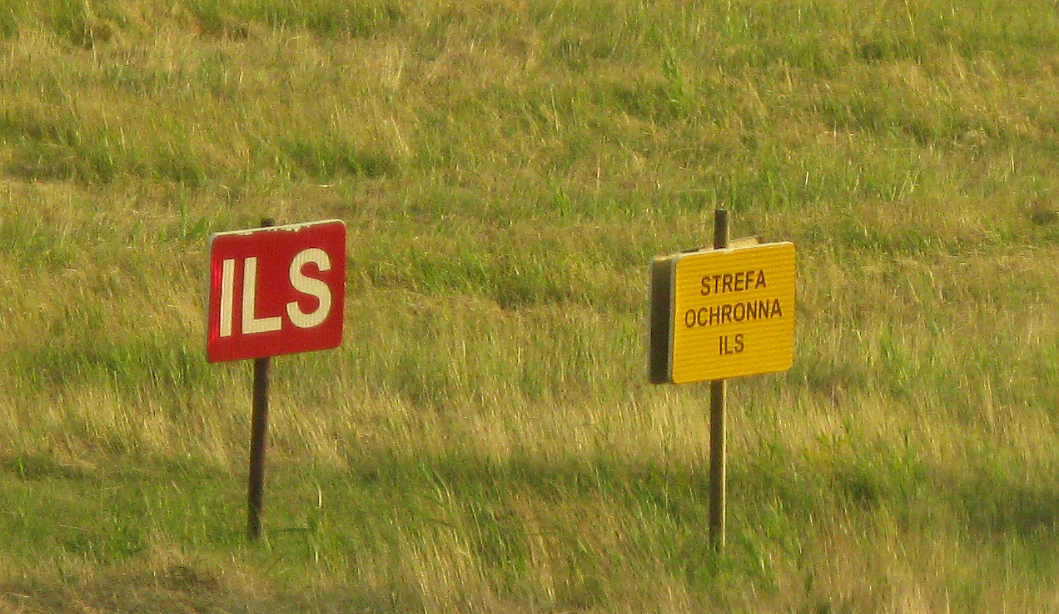 Instrument landing system plate in Bydgoszcz Ignacy Jan Paderewski Airport